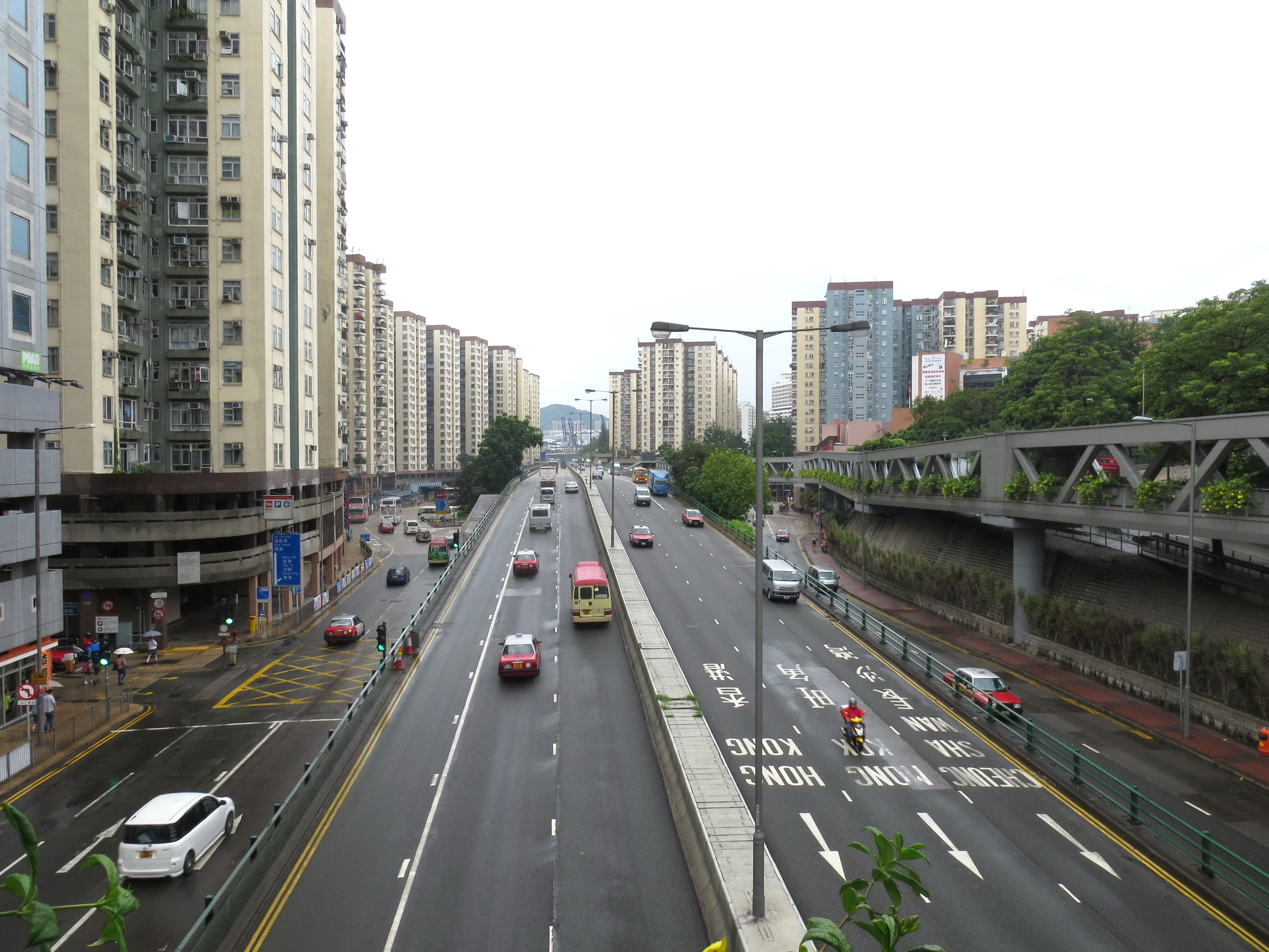 Kwai Chung Road near Mei Foo Sun Chuen, Lai Chi Kok, Kowloon, Hong Kong.